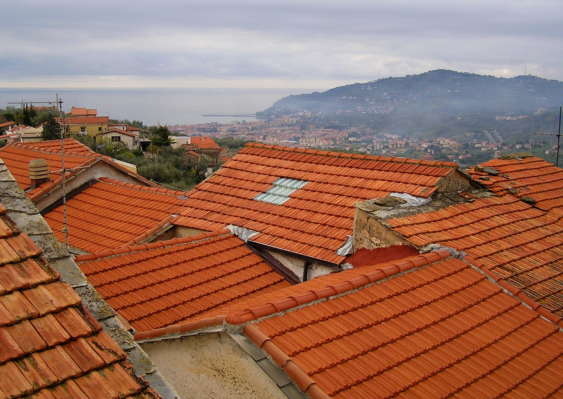 Tiled roofs with marseillaise tiles — in Western Liguria, Italy.